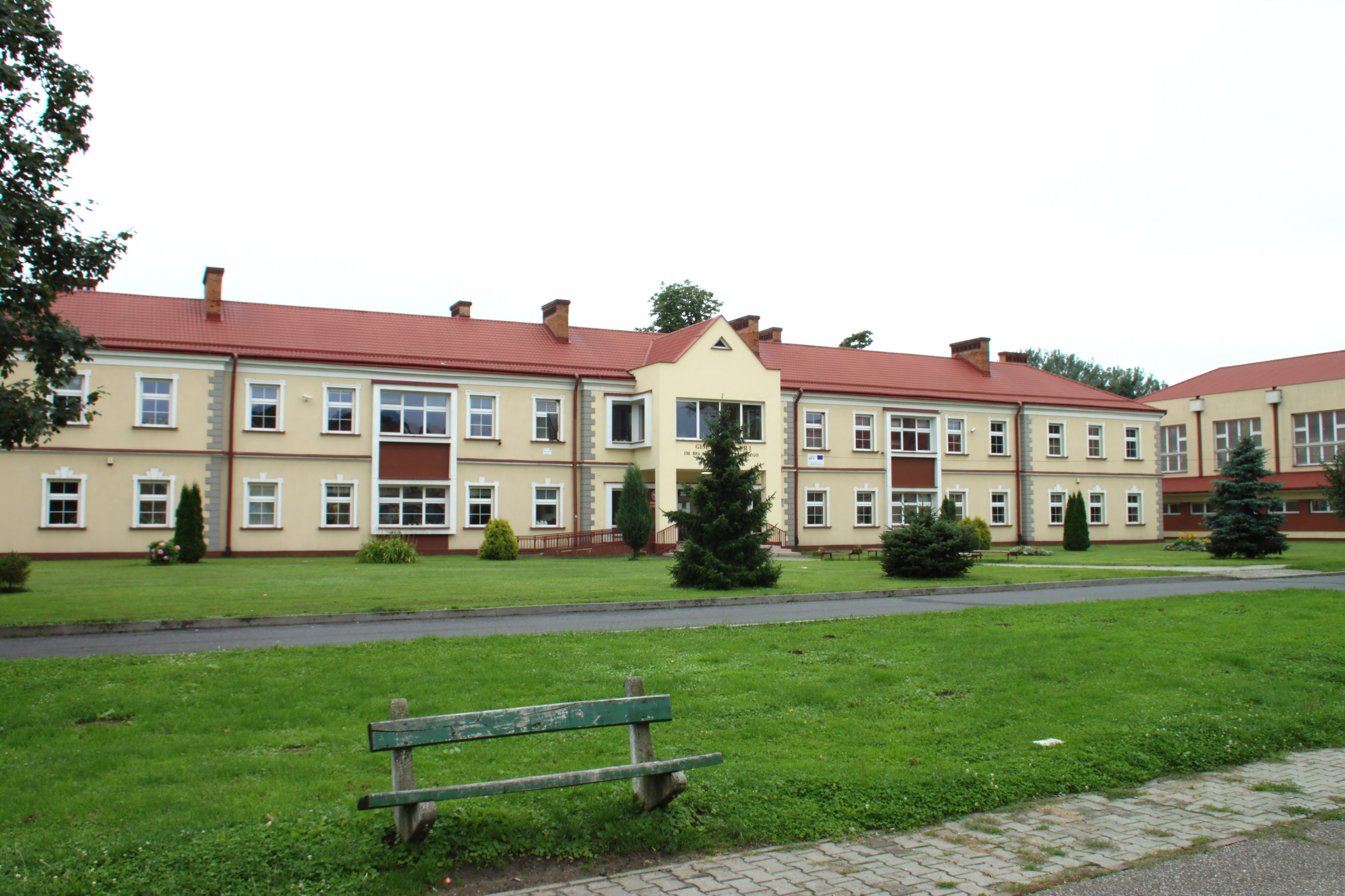 Gymnasium building in Radymno, Podkarpackie voivodeship, Poland